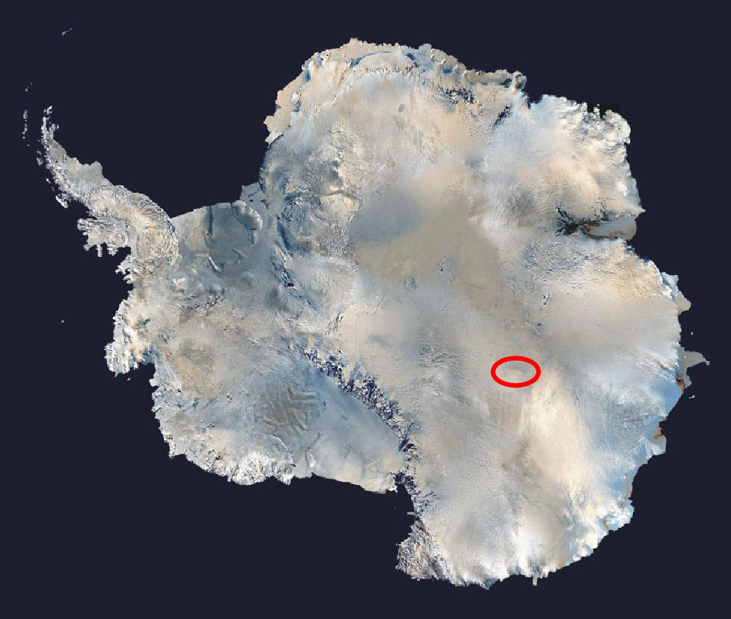 Location of Lake Vostok in Antarctica. The original is a composite satellite photo from NASA.